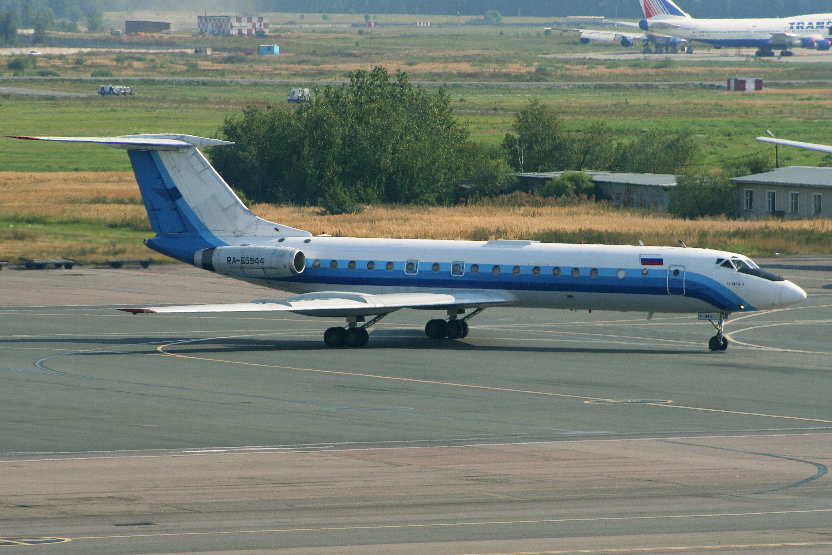 Operated by Tsentr-Yug. Seen taxiing out for departure. c/n 12096, l/n 25-01. Taken through the terminal windows at Moscow Domodedovo Airport, Russia. 15-8-2012